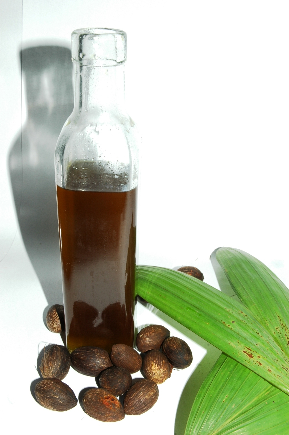 Virgim oil of Patauá